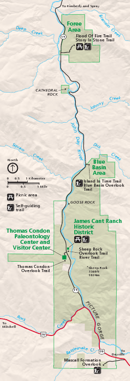 Map of the Sheep Rock Unit of the John Day Fossil Beds National Monument in north-central Oregon, United States.